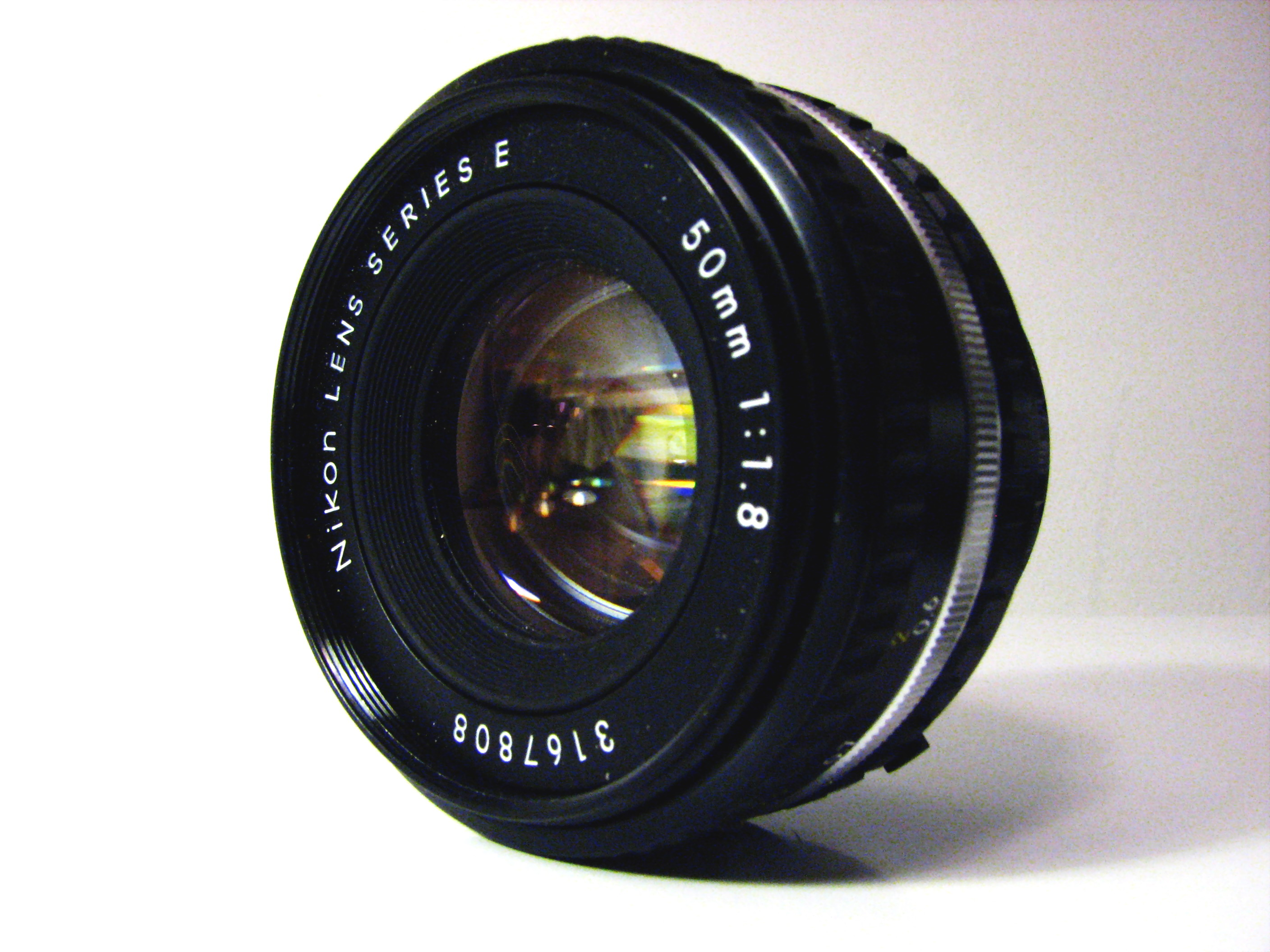 Nikon Series E 50mm 1:1.8 lens